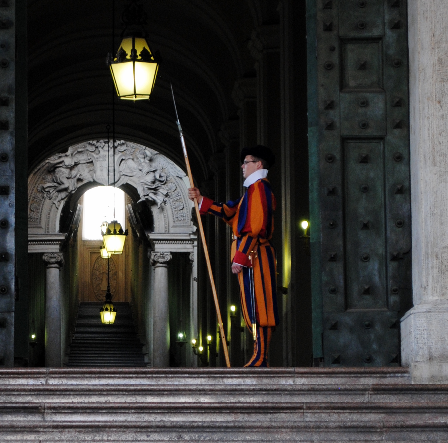 Swiss Guard at the Bronze Door in Vatican City. The staircase in the background is Gianlorenzo Bernini's Scala Regia.